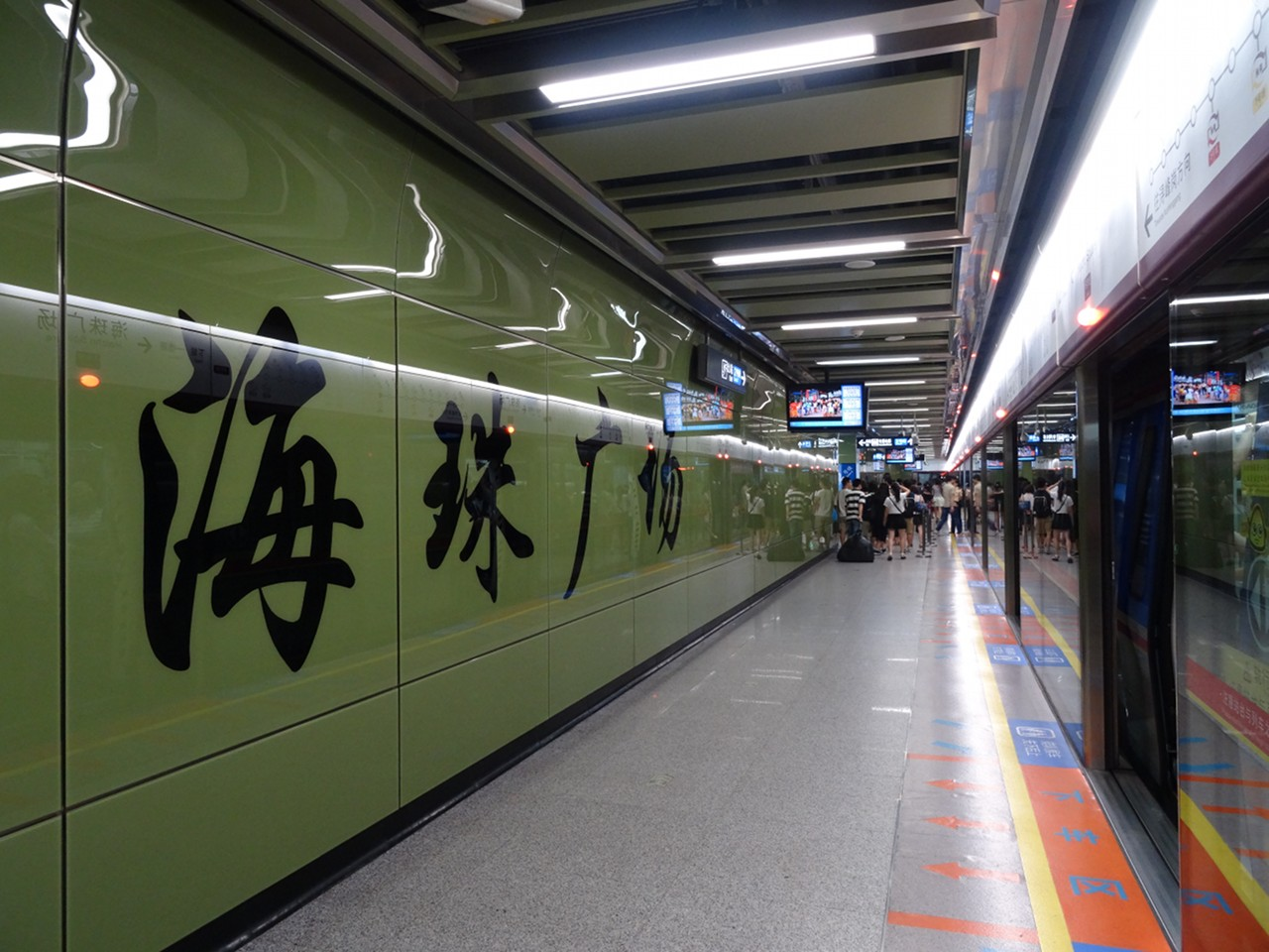 海珠廣場站6號線嘅月台（去潯峰崗個邊）